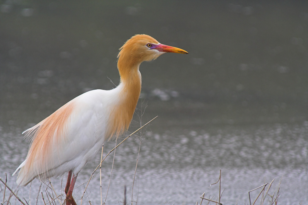 Eastern Cattle Egret Bubulcus coromandus in Japan. Showing red flush on bill and legs denotes height of breeding season.